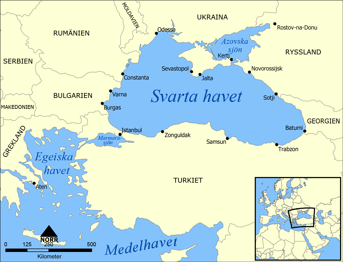 A map showing the location of the Black Sea and some of the large or prominent ports around it. The Sea of Azov and Sea of Marmara are also labelled.